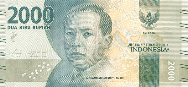 2000 rupiah bill, 2016 series, obverse